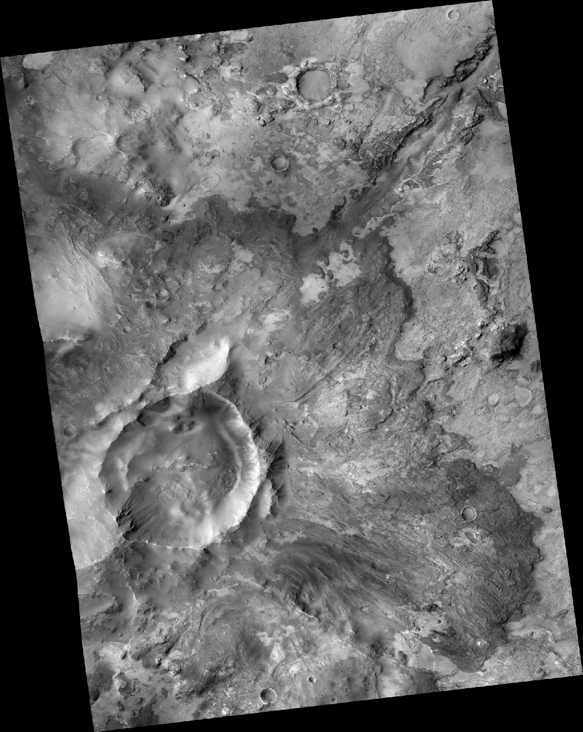 Koshoba crater on Mars. Mars Reconnaissance Orbiter, CTX camera. Center Lat: 23.27° Center Lon: 77.12° Scaled Pixel Width: 5.76 m Incidence Angle: 40.65° Emission Angle: 9.51° Phase Angle: 49.93°